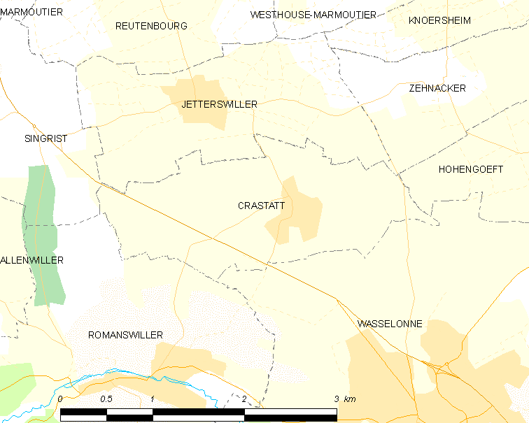 Map of French municipality